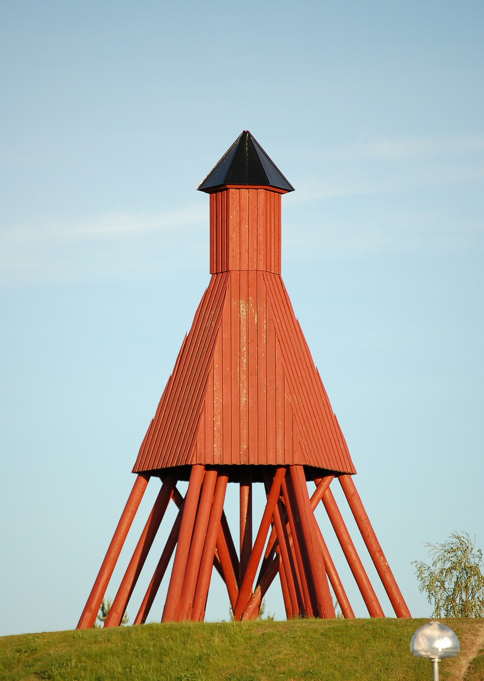 A replica of a daymark tower, built as a landmark in Oulunsalo. The tower replicates the construction of the Laitakari daymark.